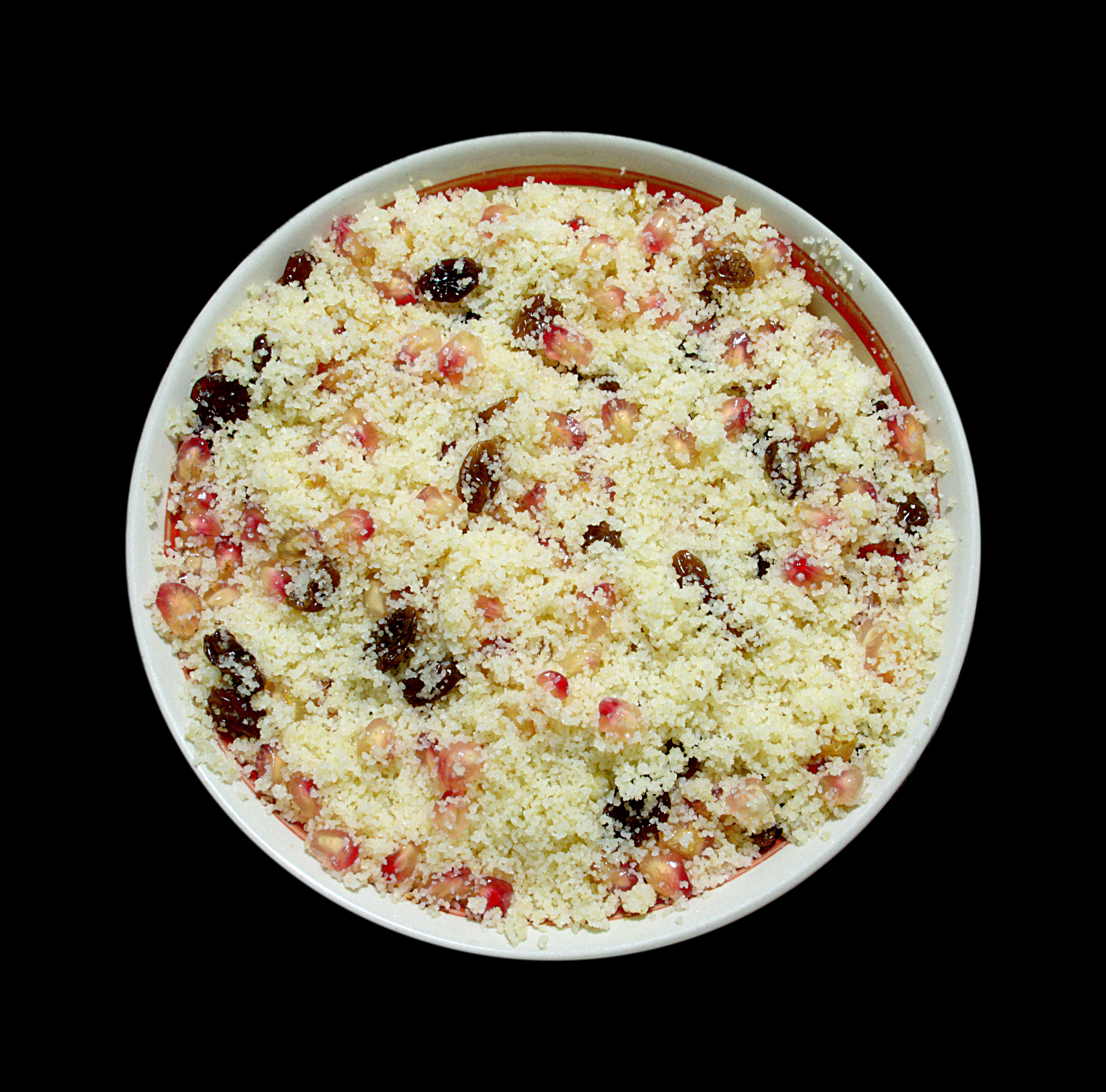 Masfouf. Tunesian couscous dish with semolina, olive oil, sugar, raisins and pomegranate seeds. This is an image of food from Tunisia